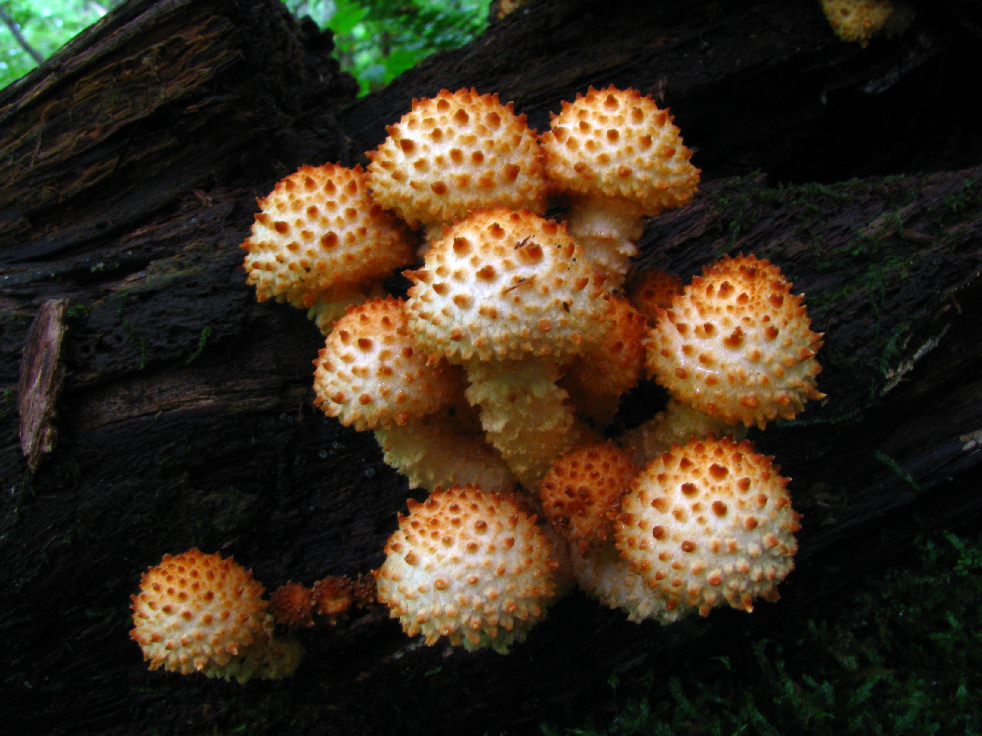 Pholiota squarrosoides ((Peck) Sacc.) Location: Ryerson Station State Park, Pennsylvania, USA. Notes: These seemed viscid undder the the scales, but they were wet from rain, so its hard to tell.